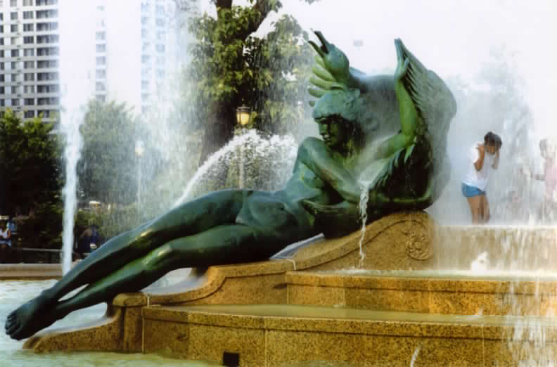 photo by Einar Einarsson Kvaran Alexander Stirling Calder Category:Images of Philadelphia, Pennsylvania